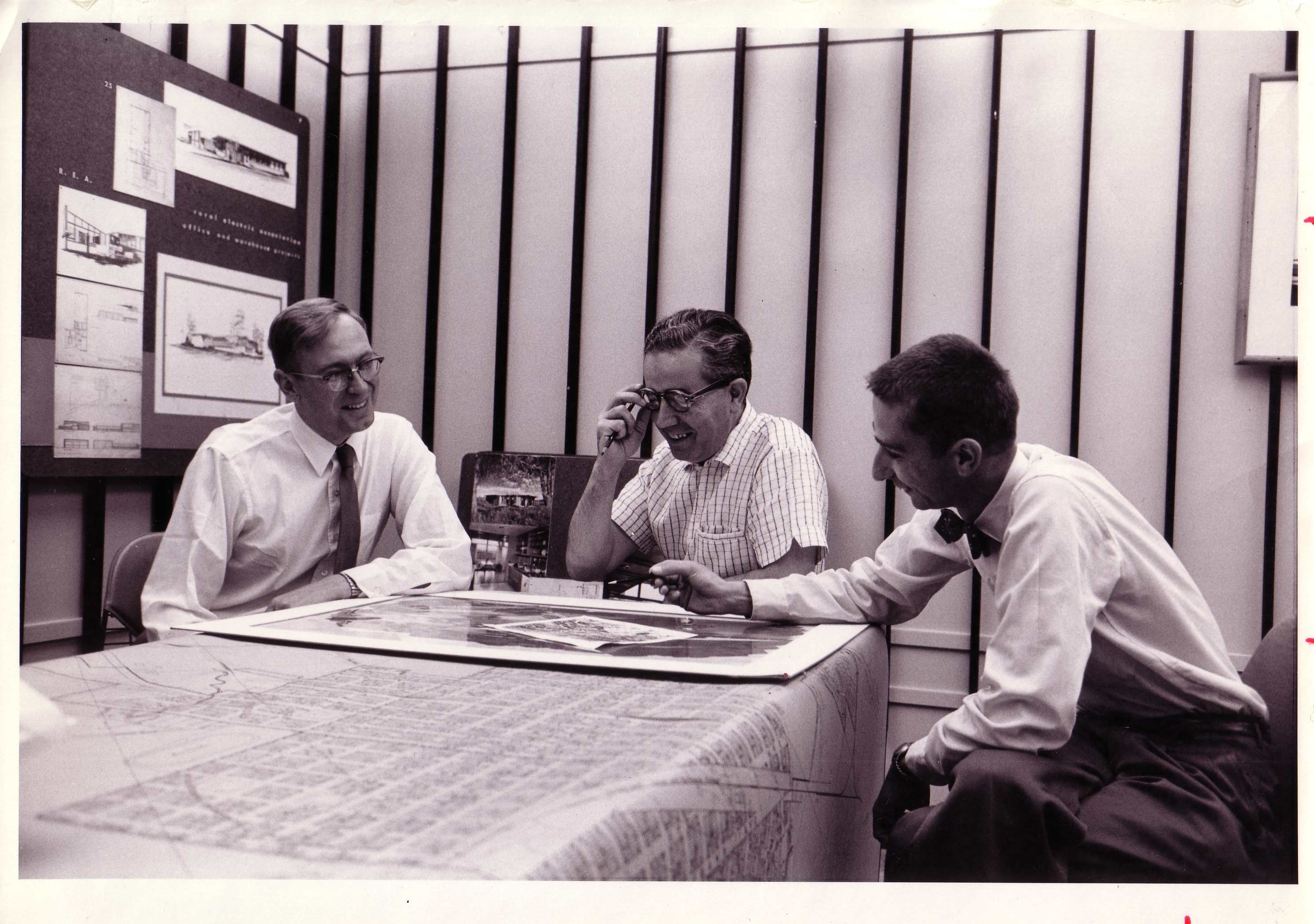 Sternberg with colleagues Helmut Young and John Schaffer